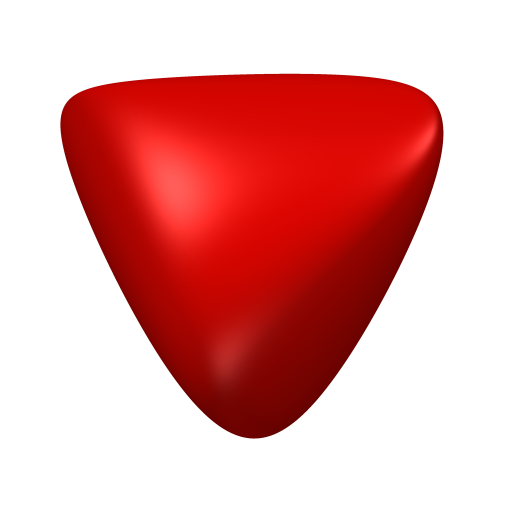 Spectrahedron